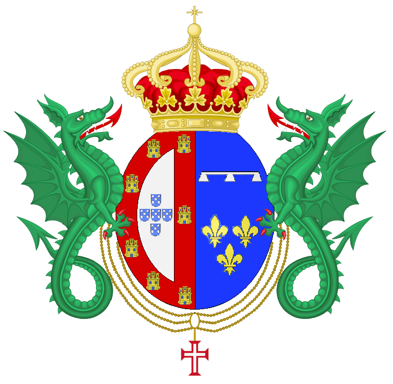 Coat of Arms of Queen consort Amelie of Portugal